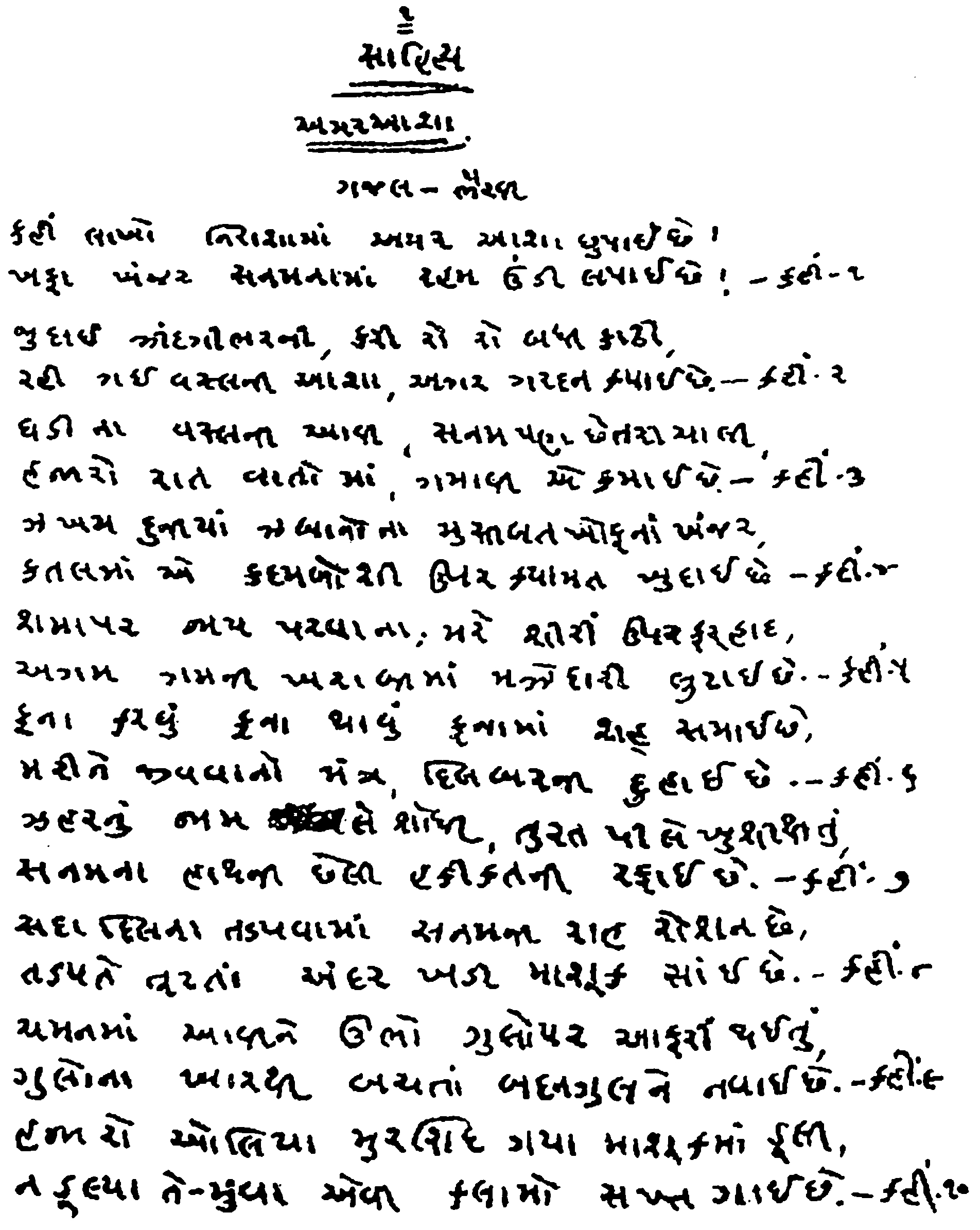 Hand writing of Manilal Nabhubhai Dwivedi. 'Amar Aasha', a poem by Manilal Nabhubhai Dwivedi.